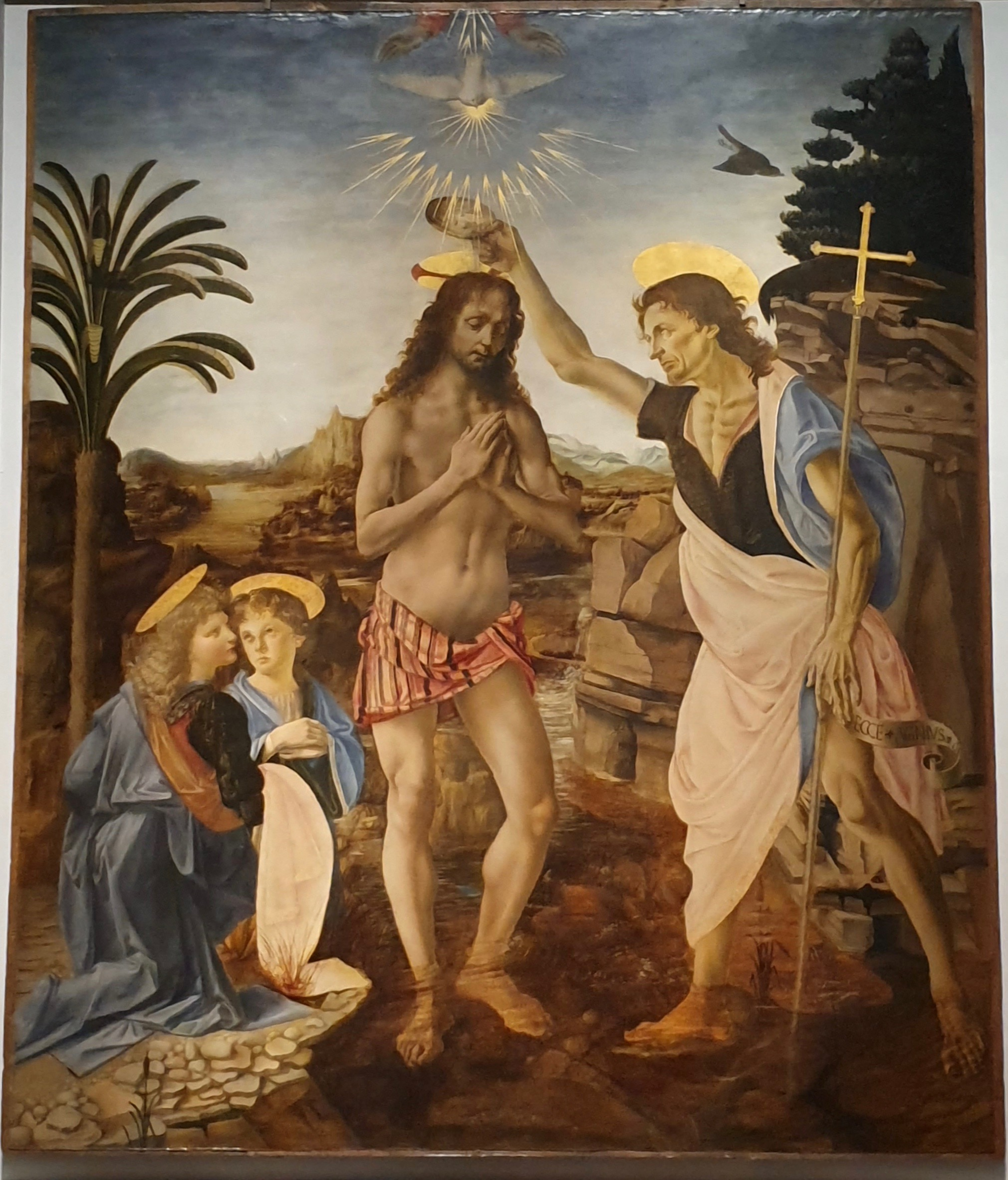 Baptism of Christ by Andrea del Verrocchio